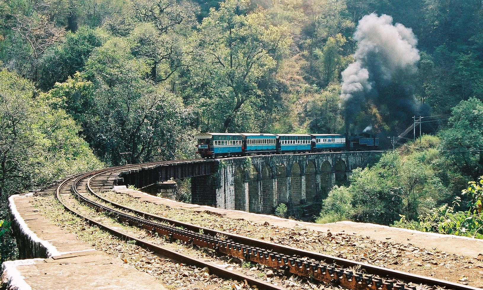 Nilgiri Mountain Railway train crossing the biggest viaduct on the line. The locomotive is No.37392. 26th February 2005 Photographer - A.M.Hurrell Camera - Minolta X700 (35mm film) Modified - Scanned by film developer. File size and definition changed using Adobe Photoshop 5.0LE